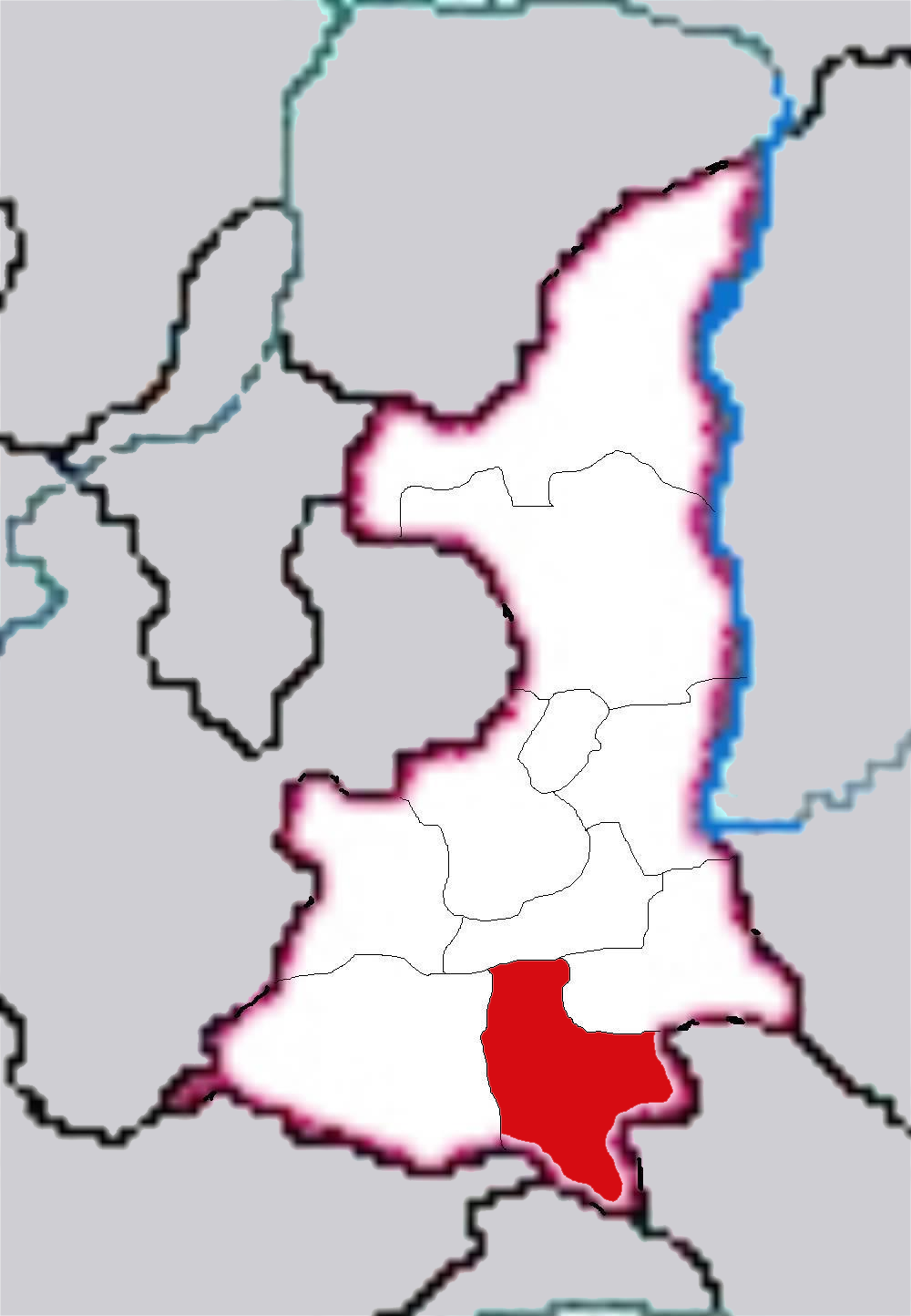 Maps of Shaanxi Province of China